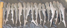 Young-of-the-year Atlantic sharpnose sharks (Rhizoprionodon terraenovae)